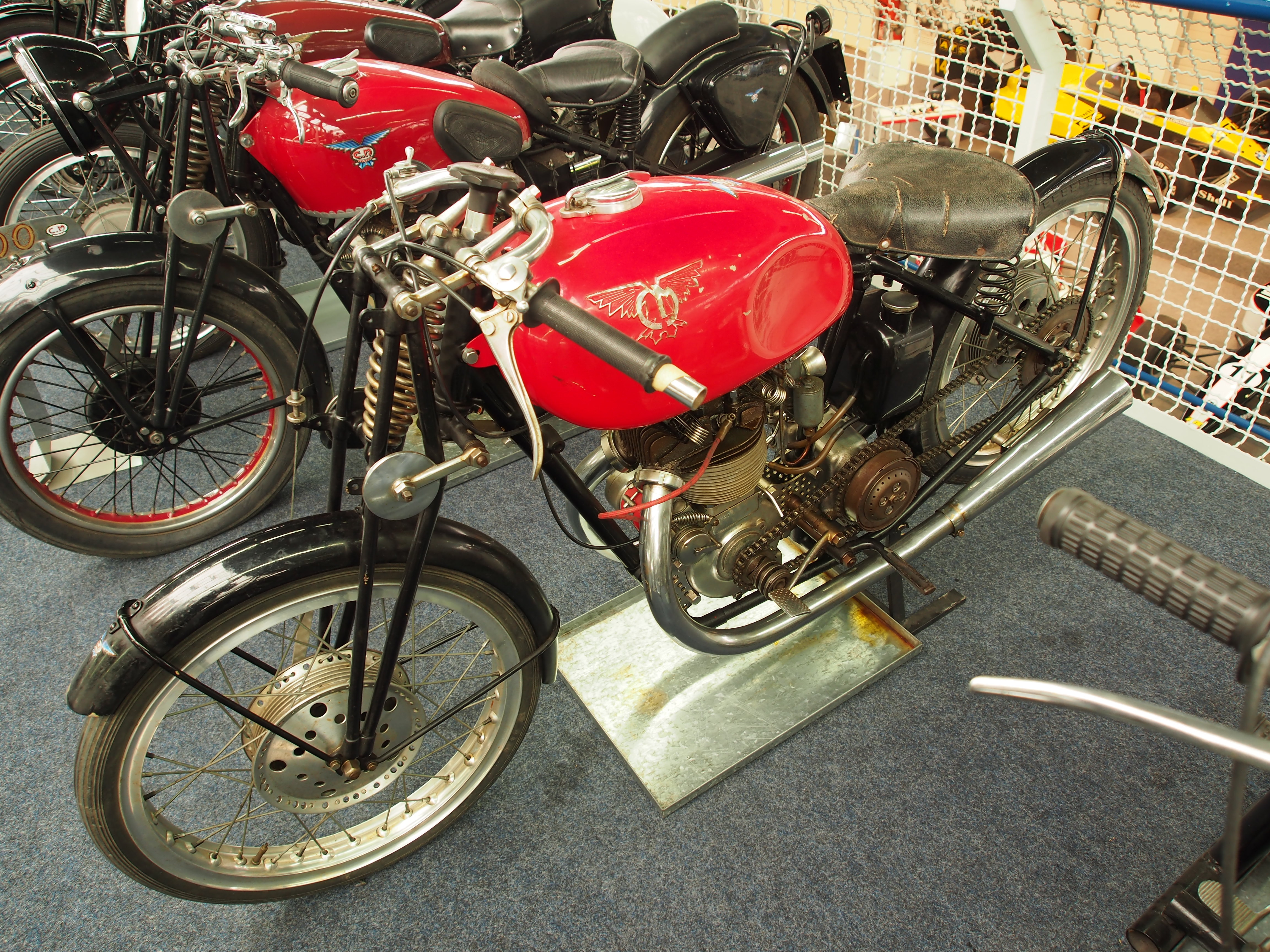 Photographed at the Motor-Sport-Museum am Hockenheimring, Germany.